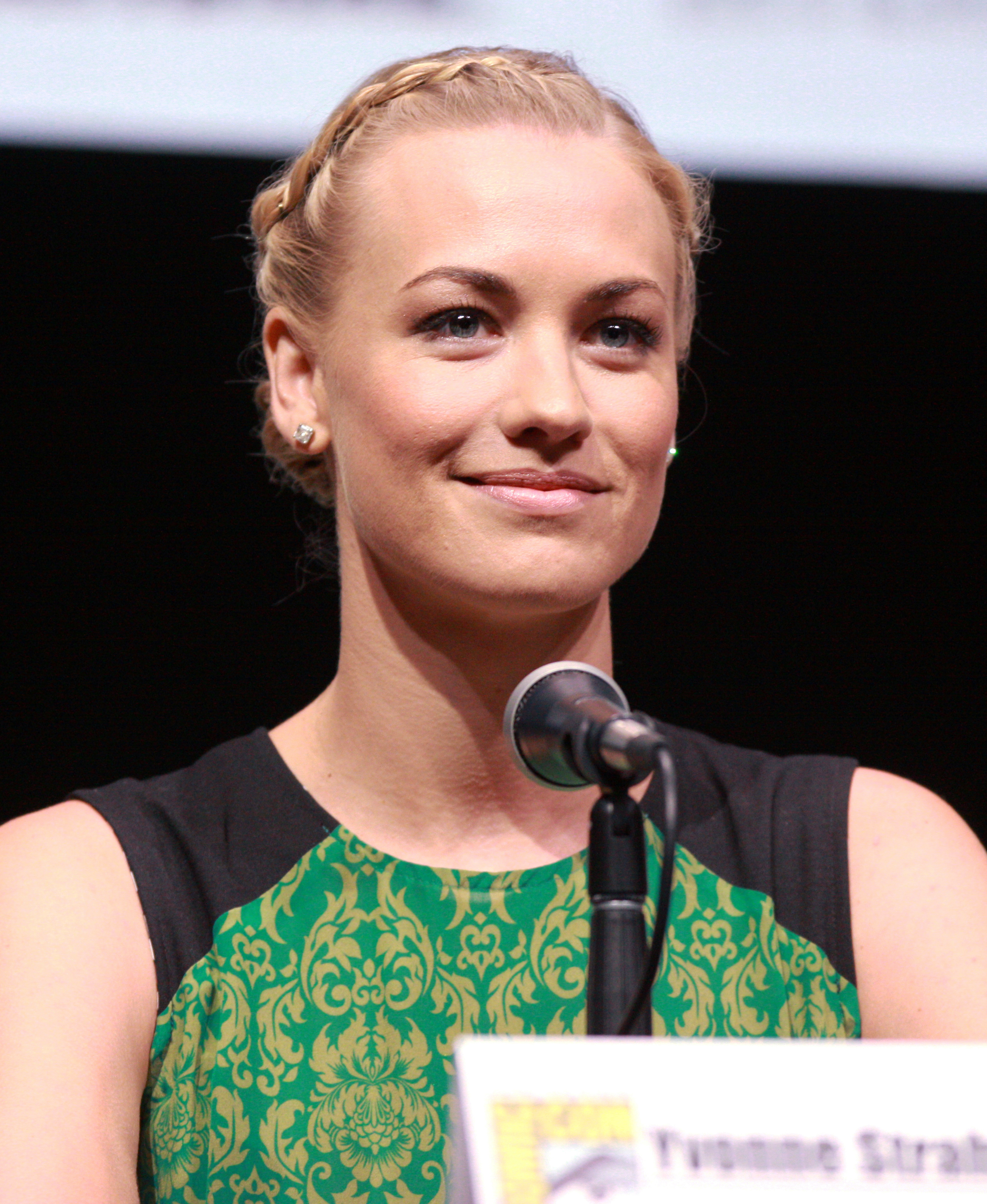 Yvonne Strahovski at the 2013 San Diego Comic Con International in San Diego, California.